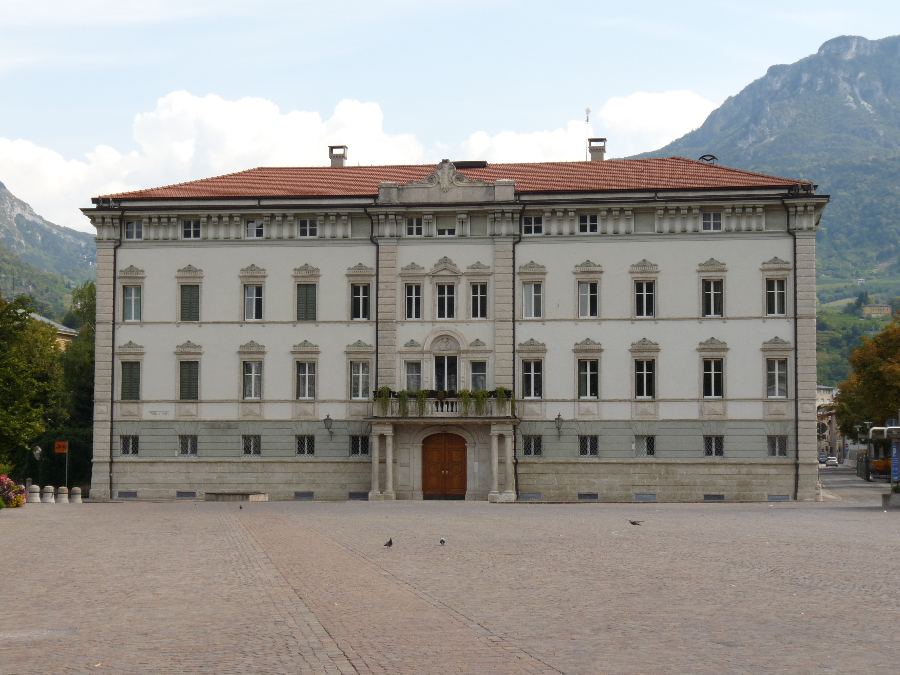 Trento (Italy): front of Palazzo Arcivescovile in Piazza Fiera.